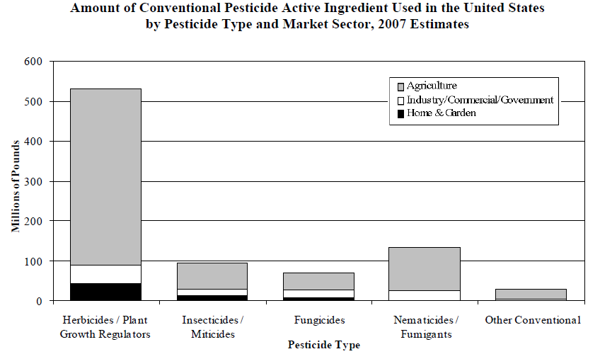 Graph of U.S. pesticide usage by type and industry, estimated for 2007.